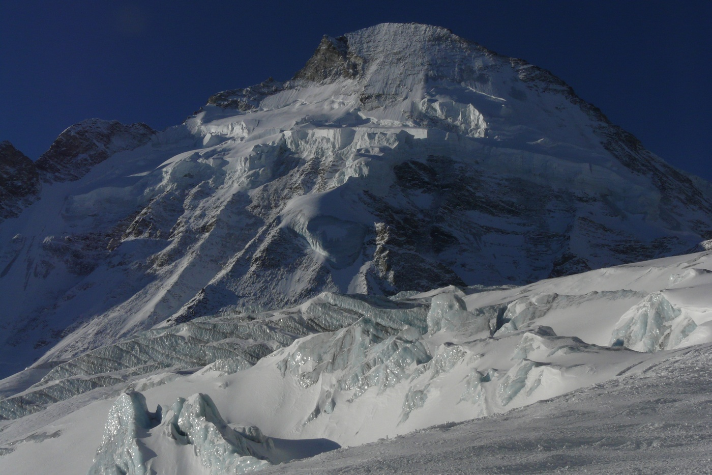 Dent d'Hérens